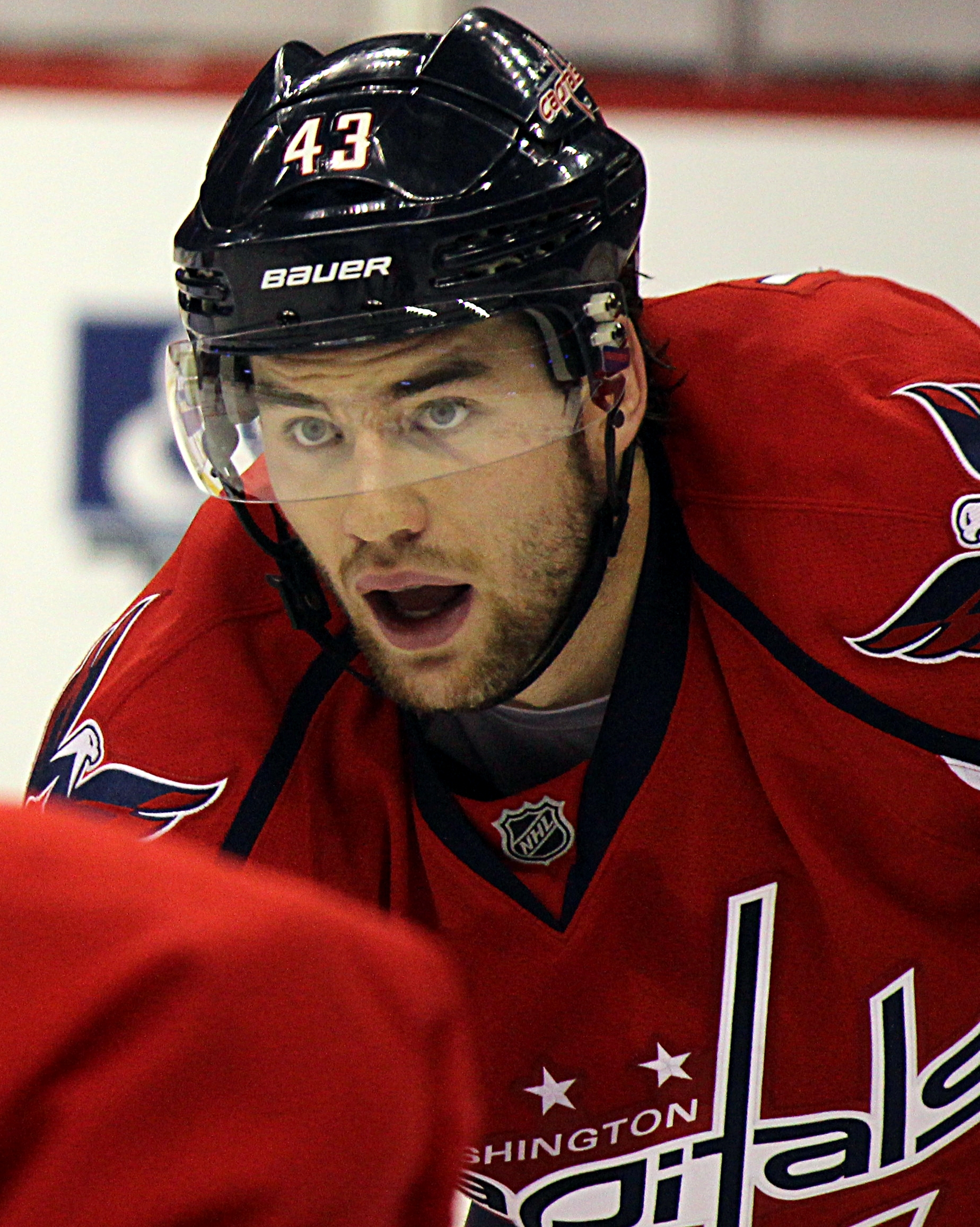 Washington Capitals forward Tom Wilson during a playoff game against the Pittsburgh Penguins, Thursday, April 28, 2016 at Verizon Center in Washington, D.C.